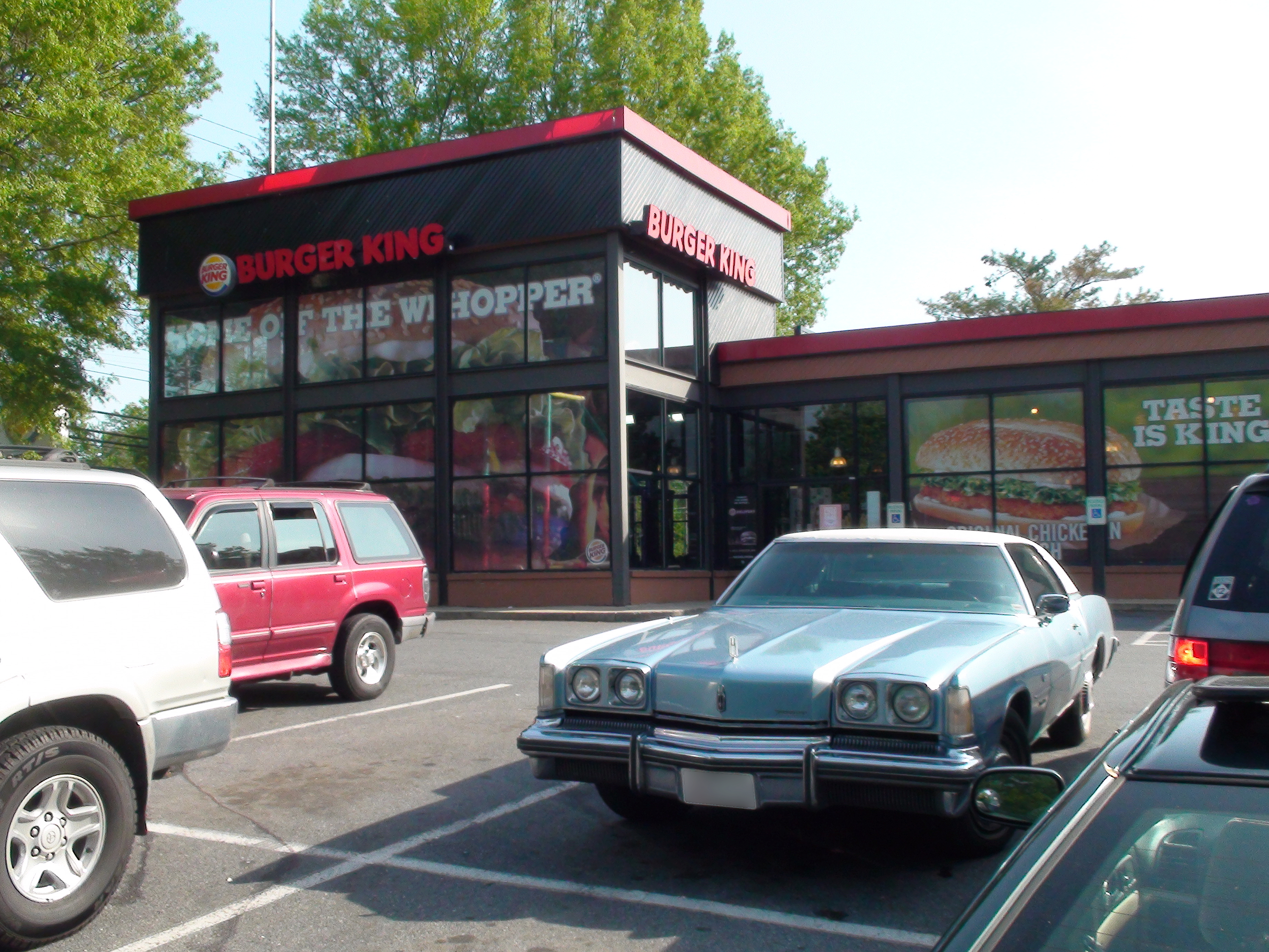 A Burger King restaurant at 16004 Shady Grove Road in Gaithersburg, Maryland on May 12, 2014. Photograph taken on May 12, 2014, in Gaithersburg, Maryland, with a Sony HDR-SR11 camcorder, by Illegitimate Barrister.